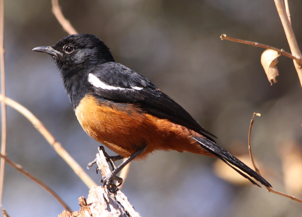 A male Mocking Cliff Chat in Mapungubwe National Park, Limpopo Province, South Africa.